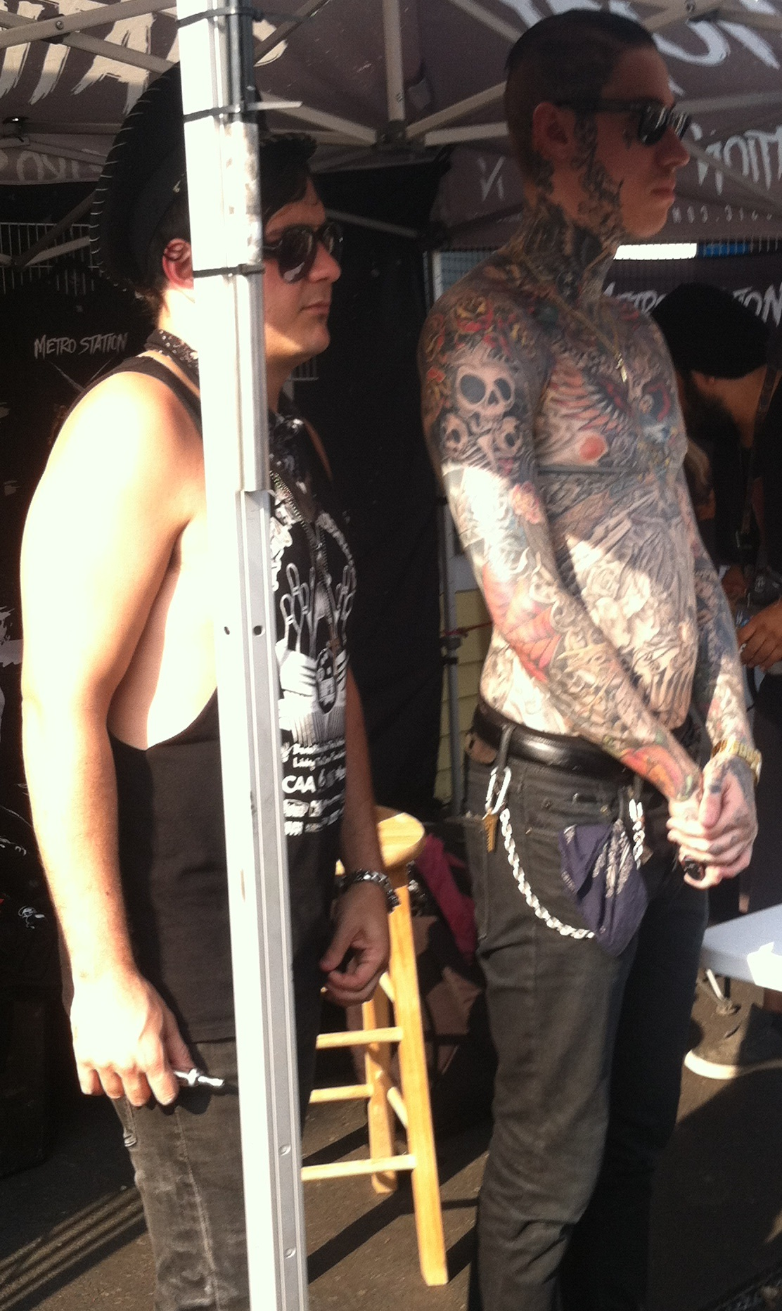 Metro Station at a meet and greet during the 2015 Warped Tour in Hartford, Connecticut. Pictured is Mason Musso (left) and Trace Cyrus (right). Photo by Peter Dzubay.